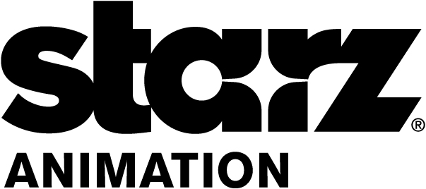 Starz Animation logo